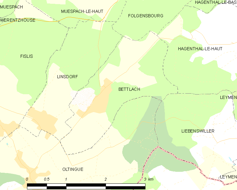 Map of French municipality